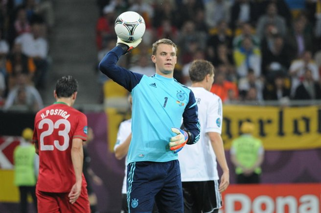 Manuel Neuer at the Euro 2012 match against Portugal